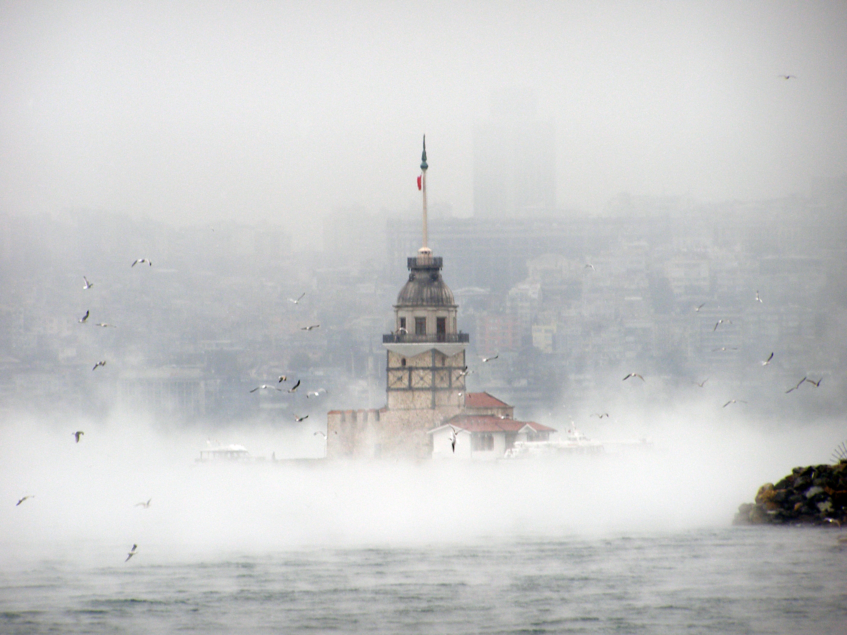 The Maiden's Tower with vapor rising from the Bosphorus. Istanbul, Turkey.